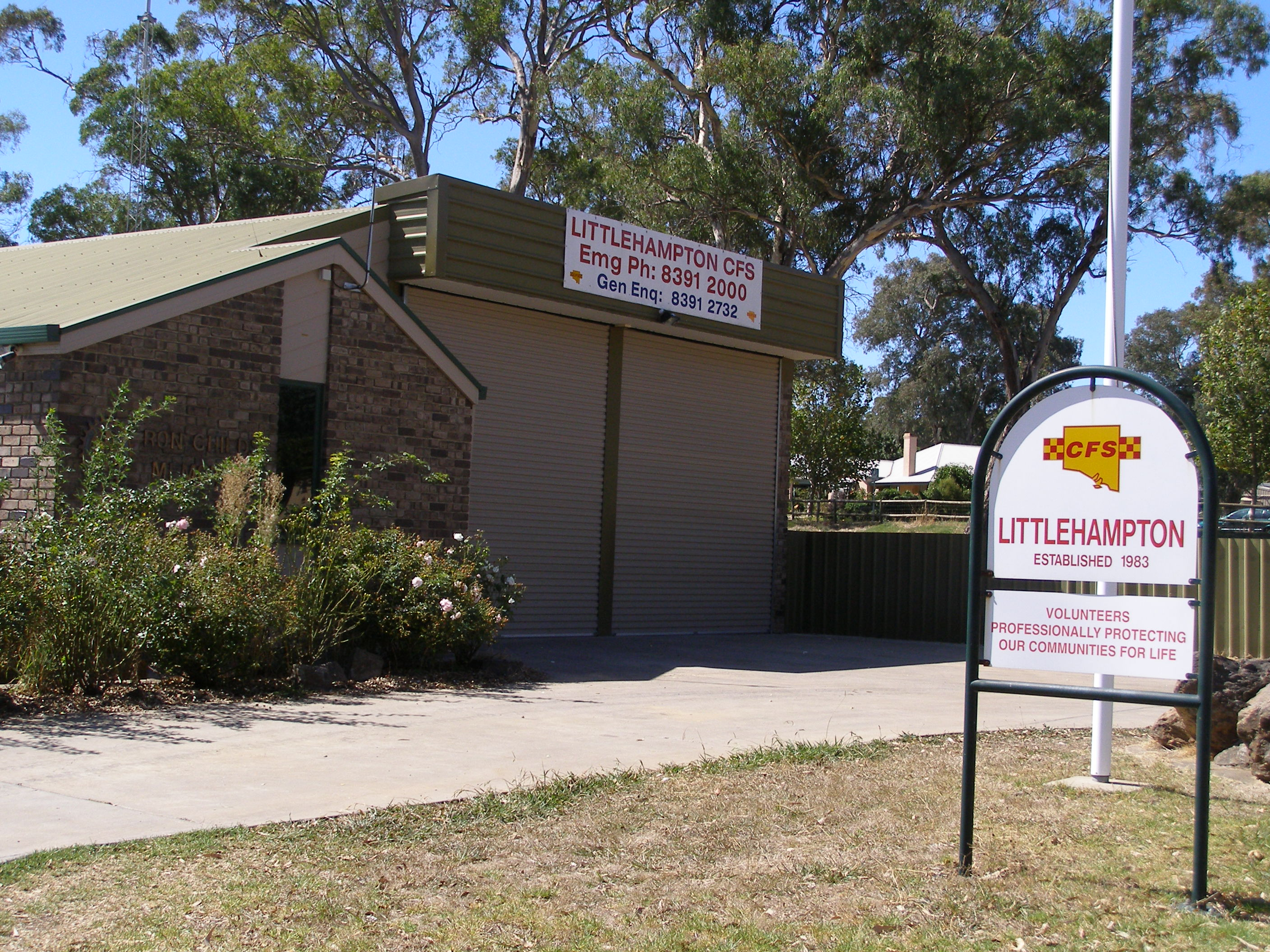 author, is user emmanuellives